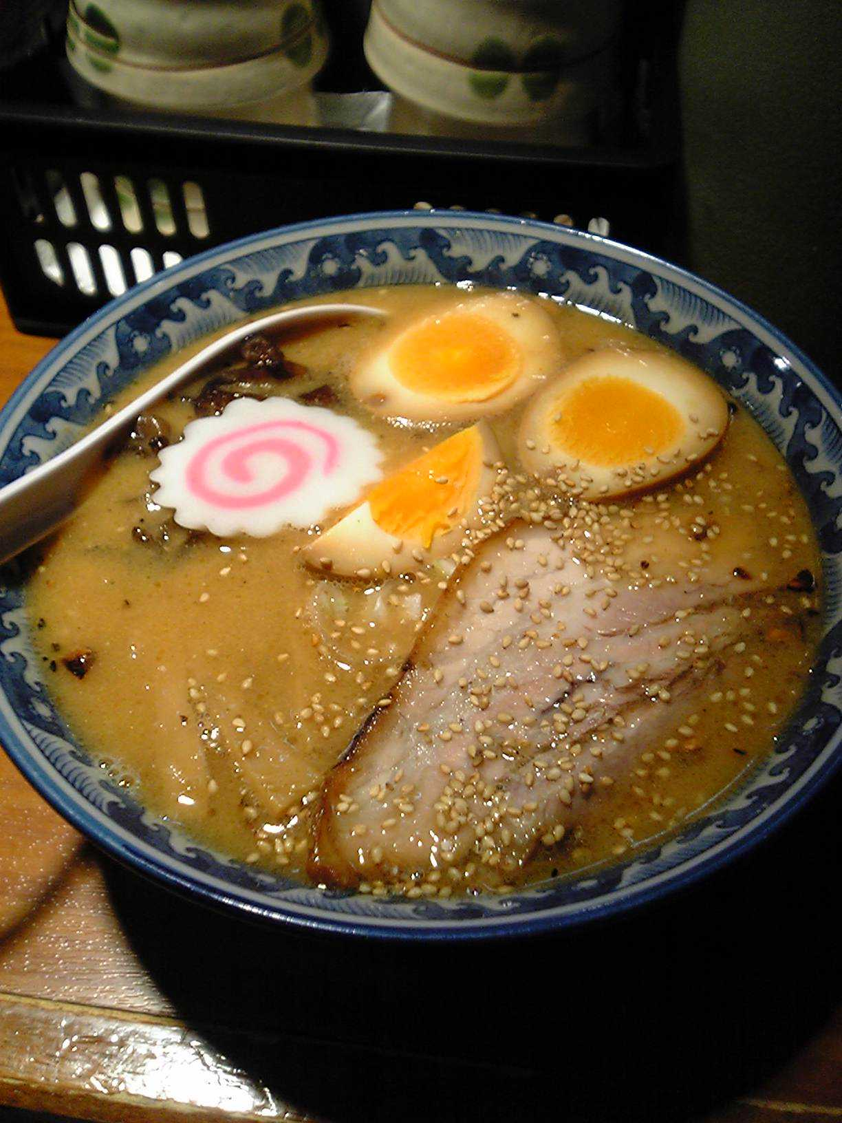 Miso ramen (Ramen with miso-flavored soup)